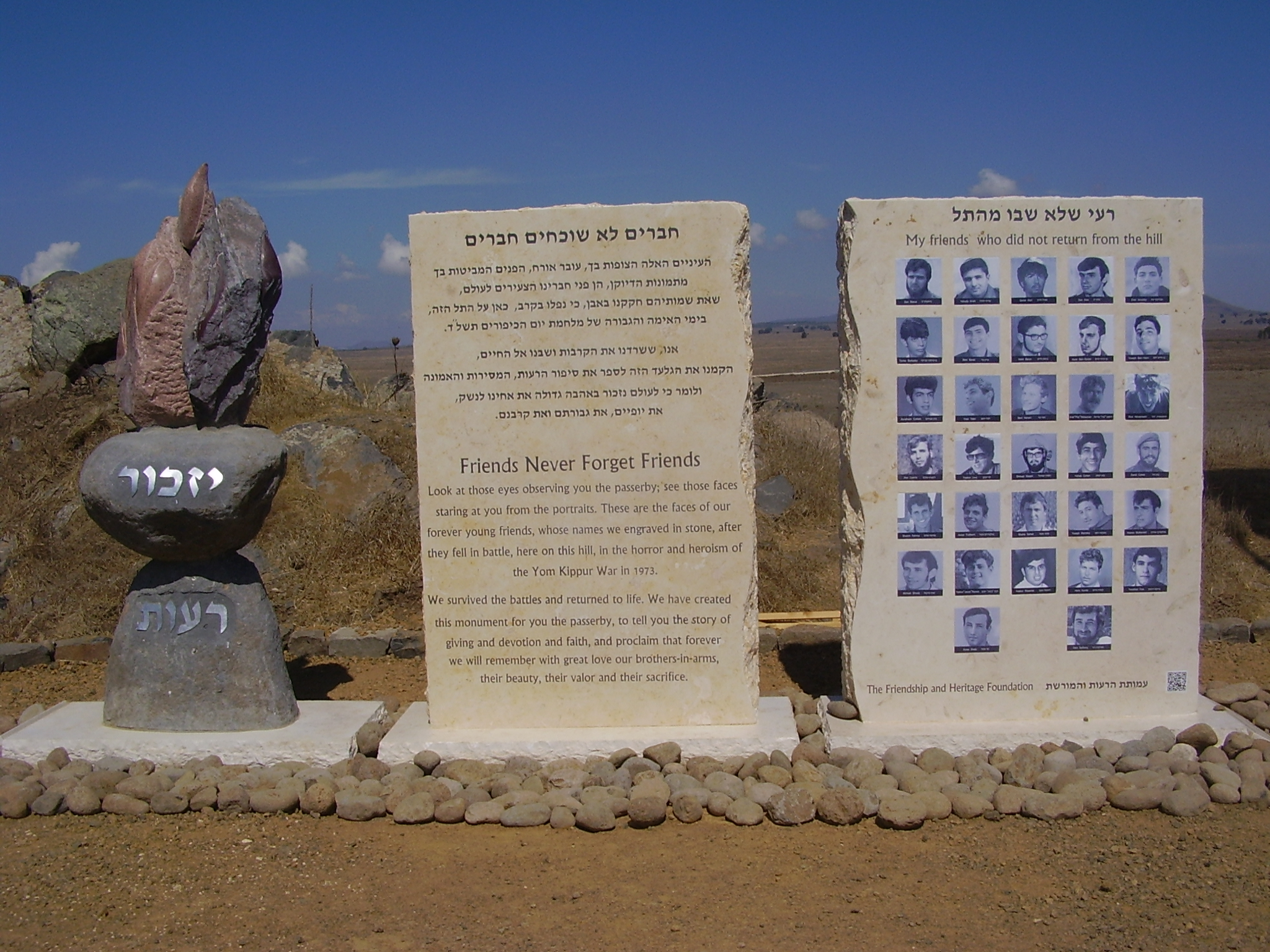 tel saki war memorial yom kippur war memorial אנדרטה לנופלים בתל סאקי במלחמת יום הכיפורים